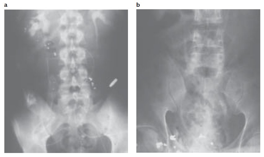 Fig. 1-5 (a) The casualty sustained a gunshot wound to the abdomen; this radiograph (b) shows multiple fragments and the retained core from an AK-47 round. The casualty’s injury to the upper urethra was treated with repair and insertion of a stent.